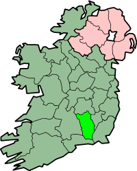 County Kilkenny map, Ireland 08:04, 5 February 2004 Morwen 200x249 (30670 bytes) (map)